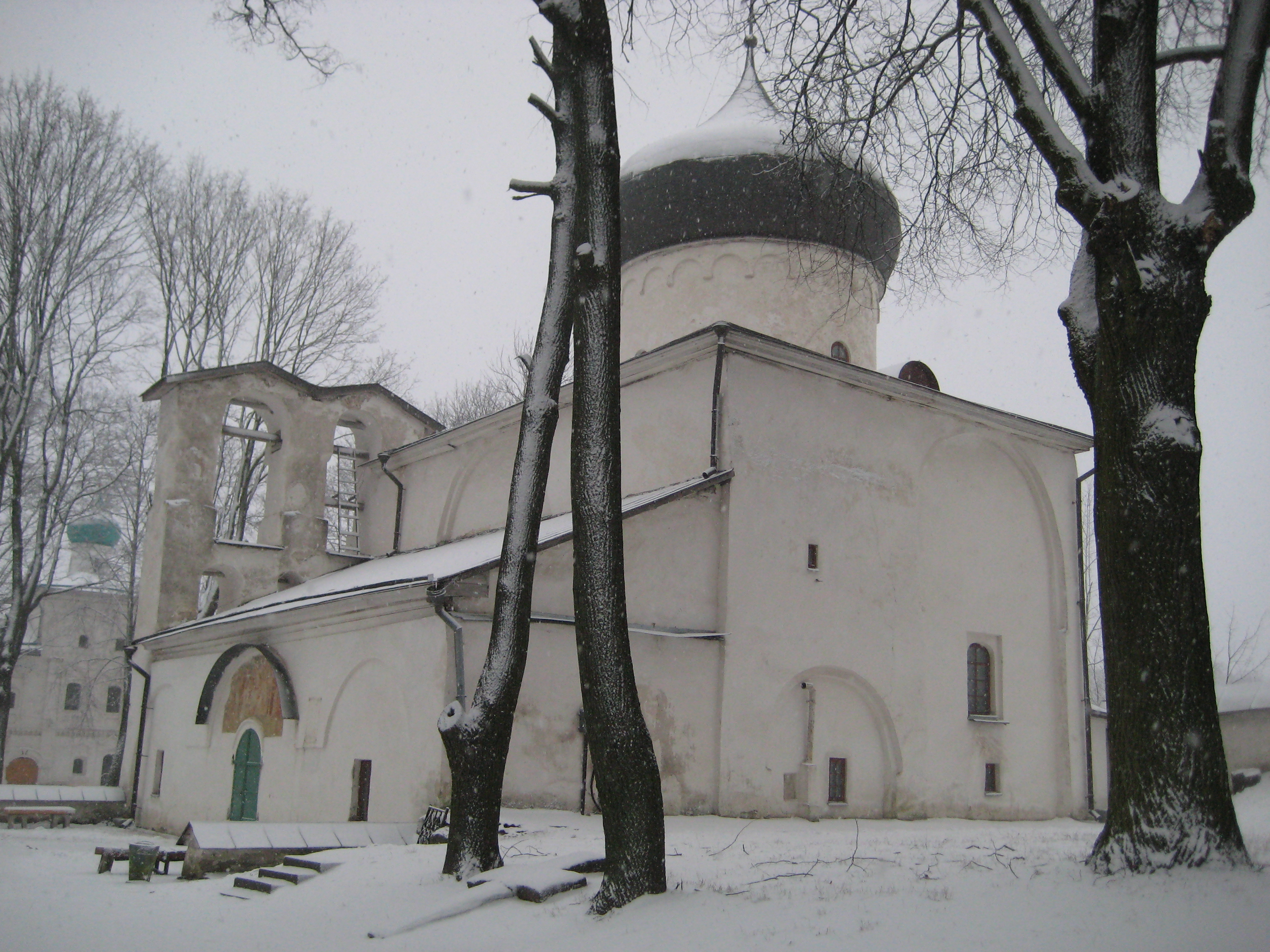 Псков. Мирожский монастырь. Собор Спаса Преображения. Pskov. Monastery of Mirozh. Cathedral of Transfiguration with famous frescoes